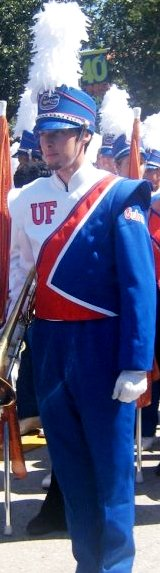 Picture of a member of the University of Florida marching band. This image is my own creation.